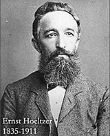 Ernst Hoelzer, German phtographer, took more than 1.000 photos in Iran from 1873–1897